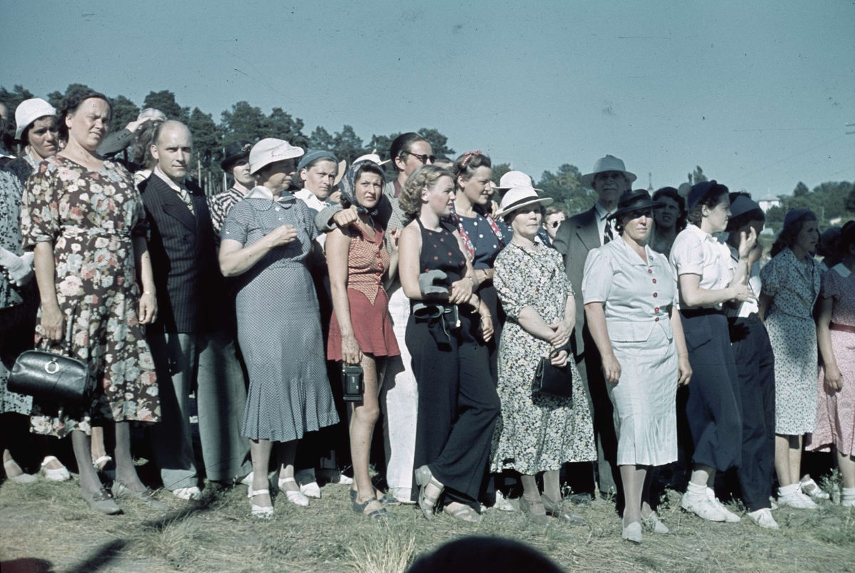 Crowd at the world cup competitions in canoe. Sweden Vaxholm 1938. This Agfacolor photo was not colorized.